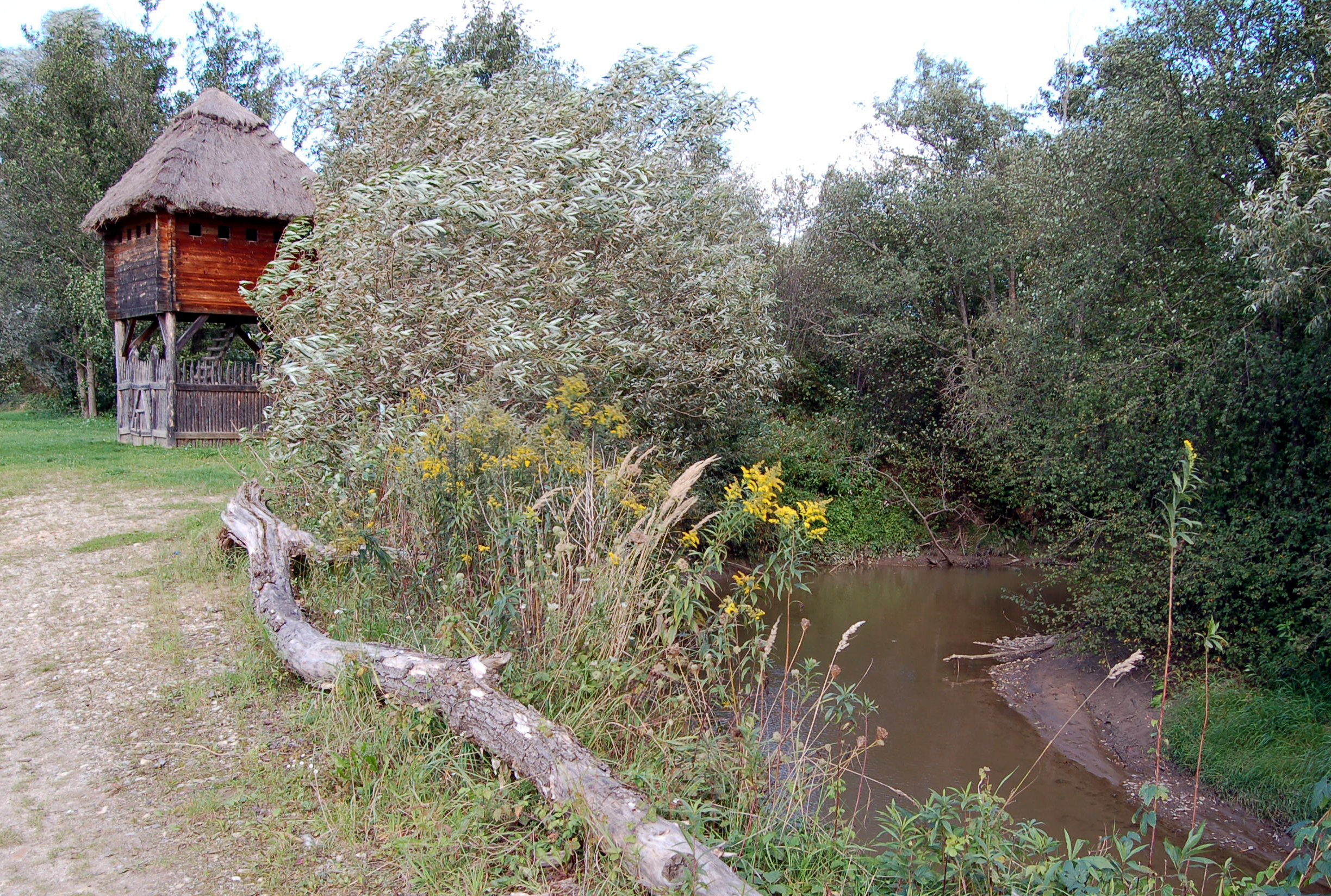 Reconstructed Tschartake near river Lafnitz at the border of Styria to Burgenland, Austria. Situated between Burgau and Burgauberg.